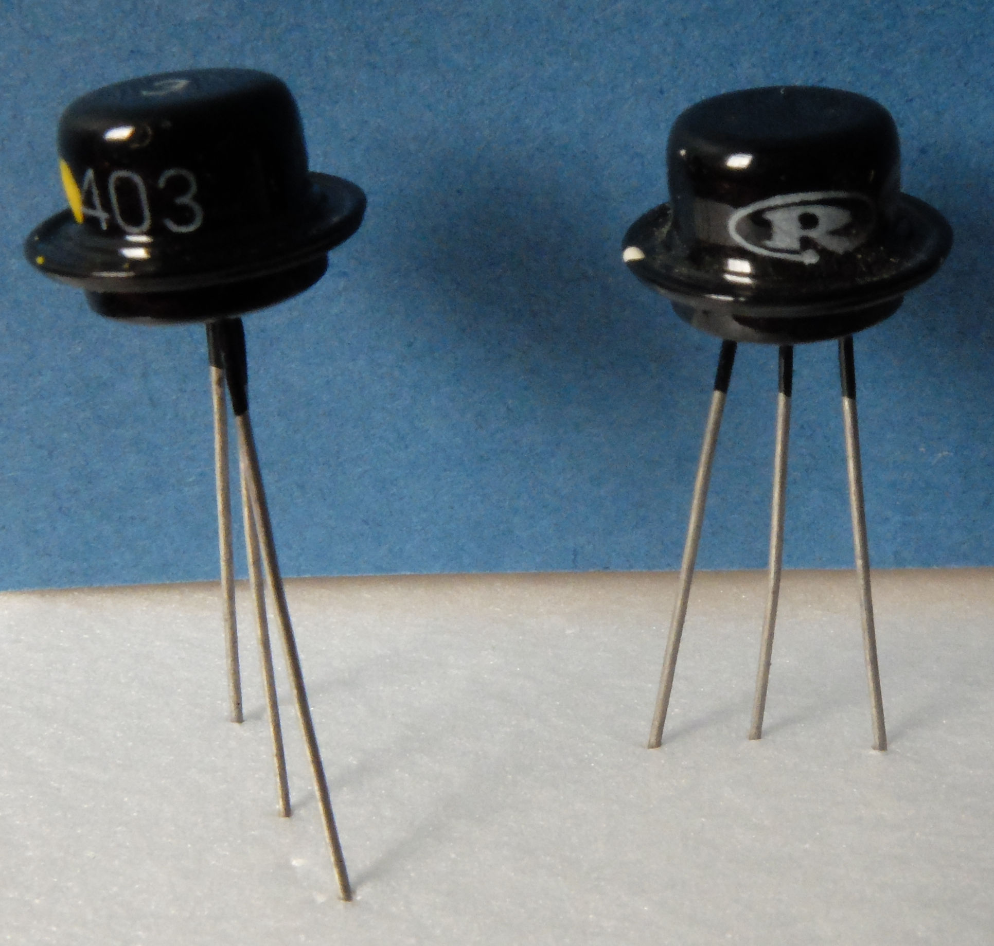 Germanium PNP transistors P403 (10V / 20mA / 100mW / 120MHz), manufactured by Alfa Riga in August 1967 and January 1968